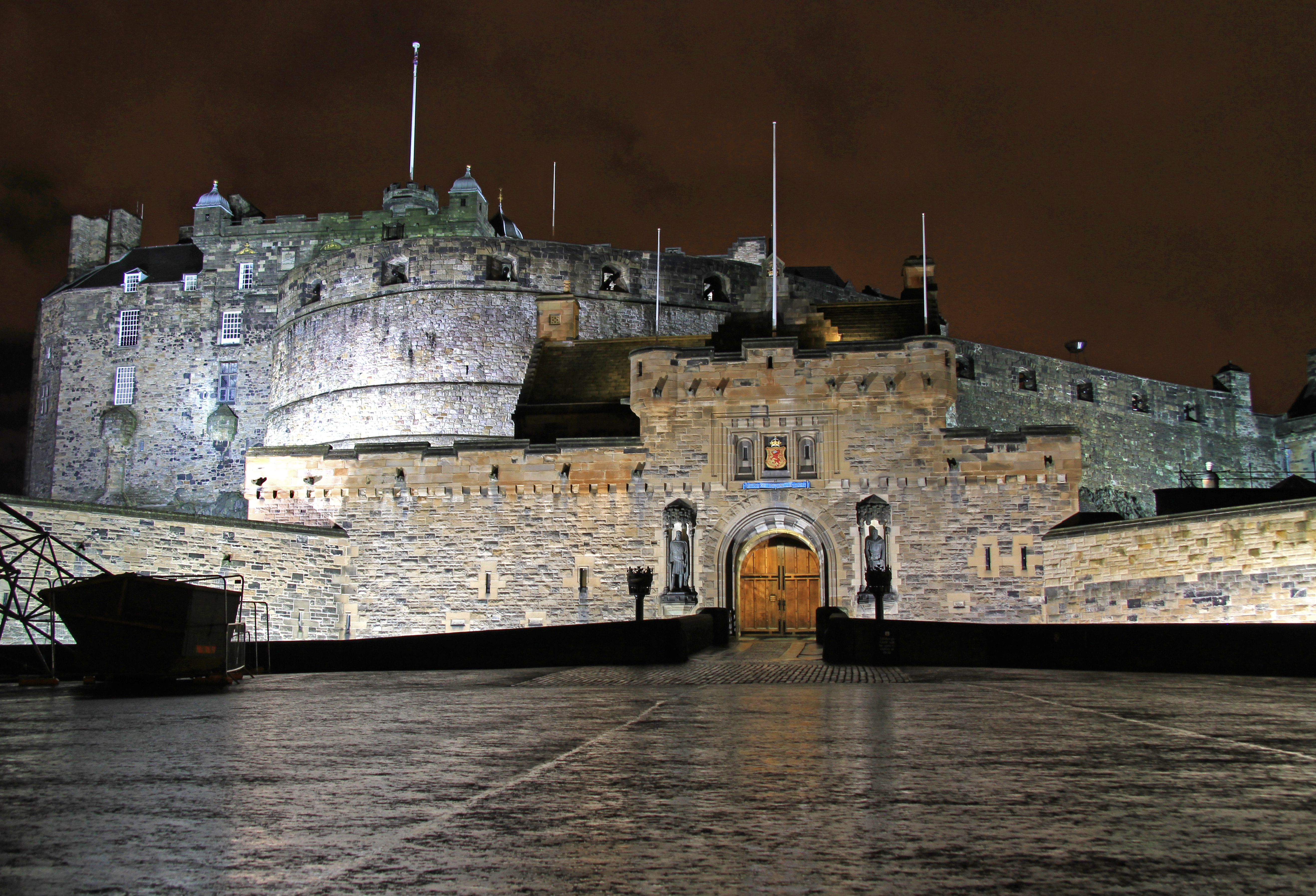 Edinburgh Castle 05